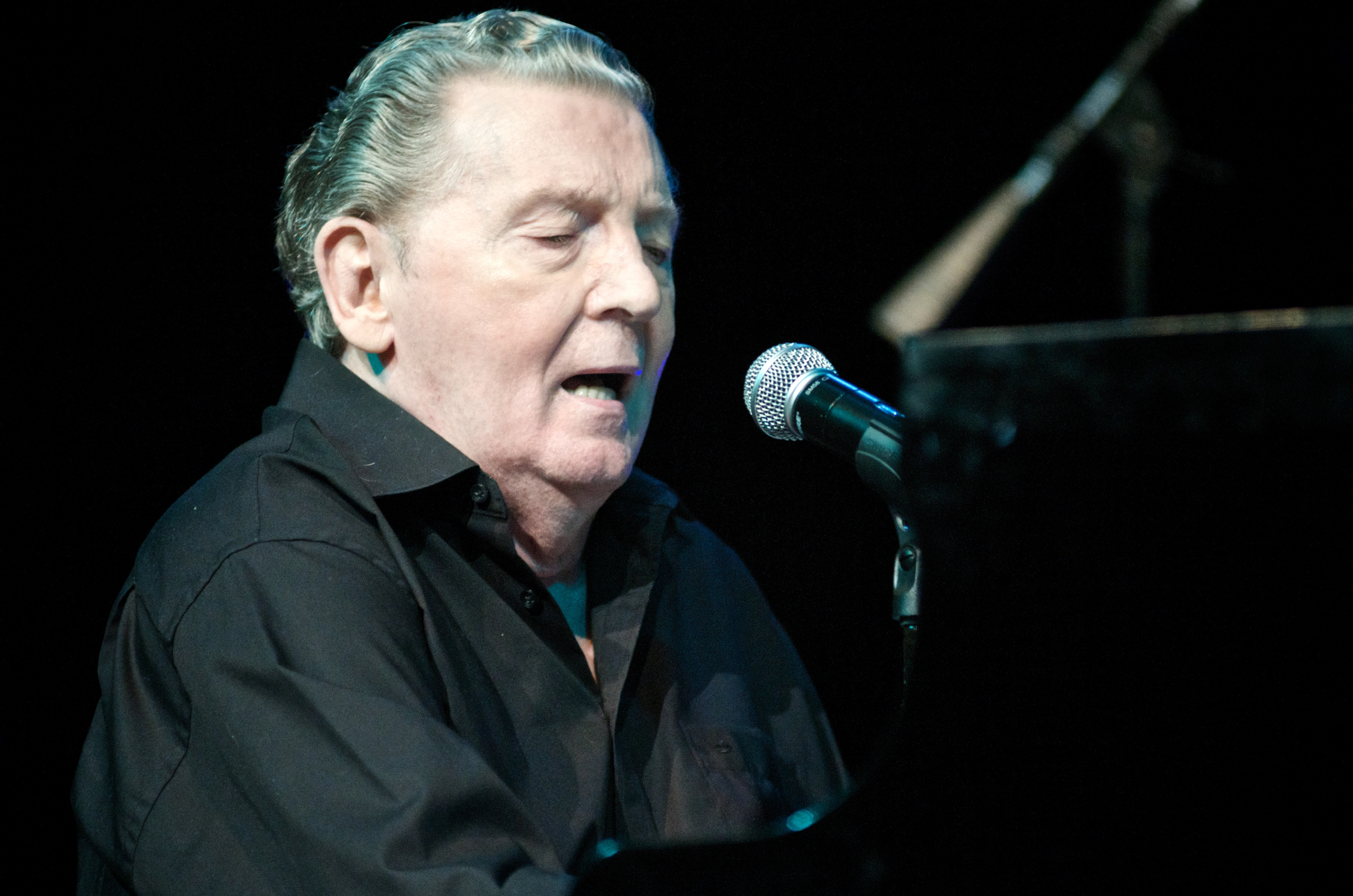 Jerry Lee Lewis in Credicard Hall, São Paulo, Brazil.